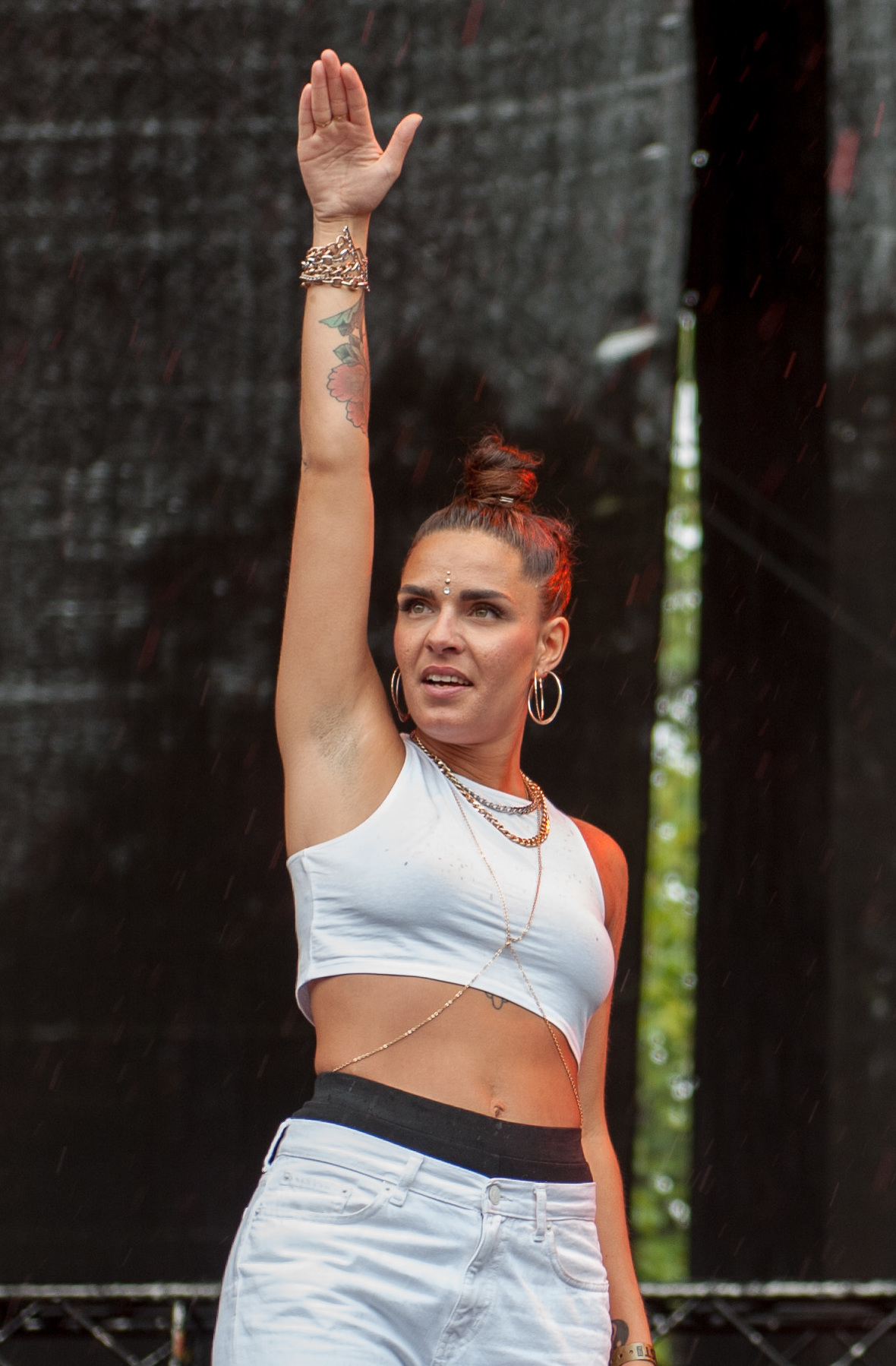 Cleo at Way Out West in Gothenburg, Sweden, august 2014